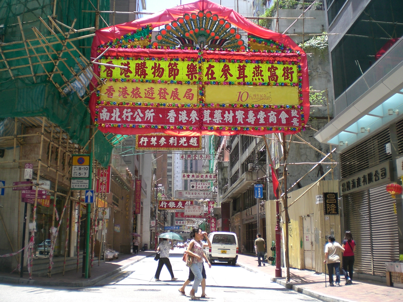 香港上環文咸西街